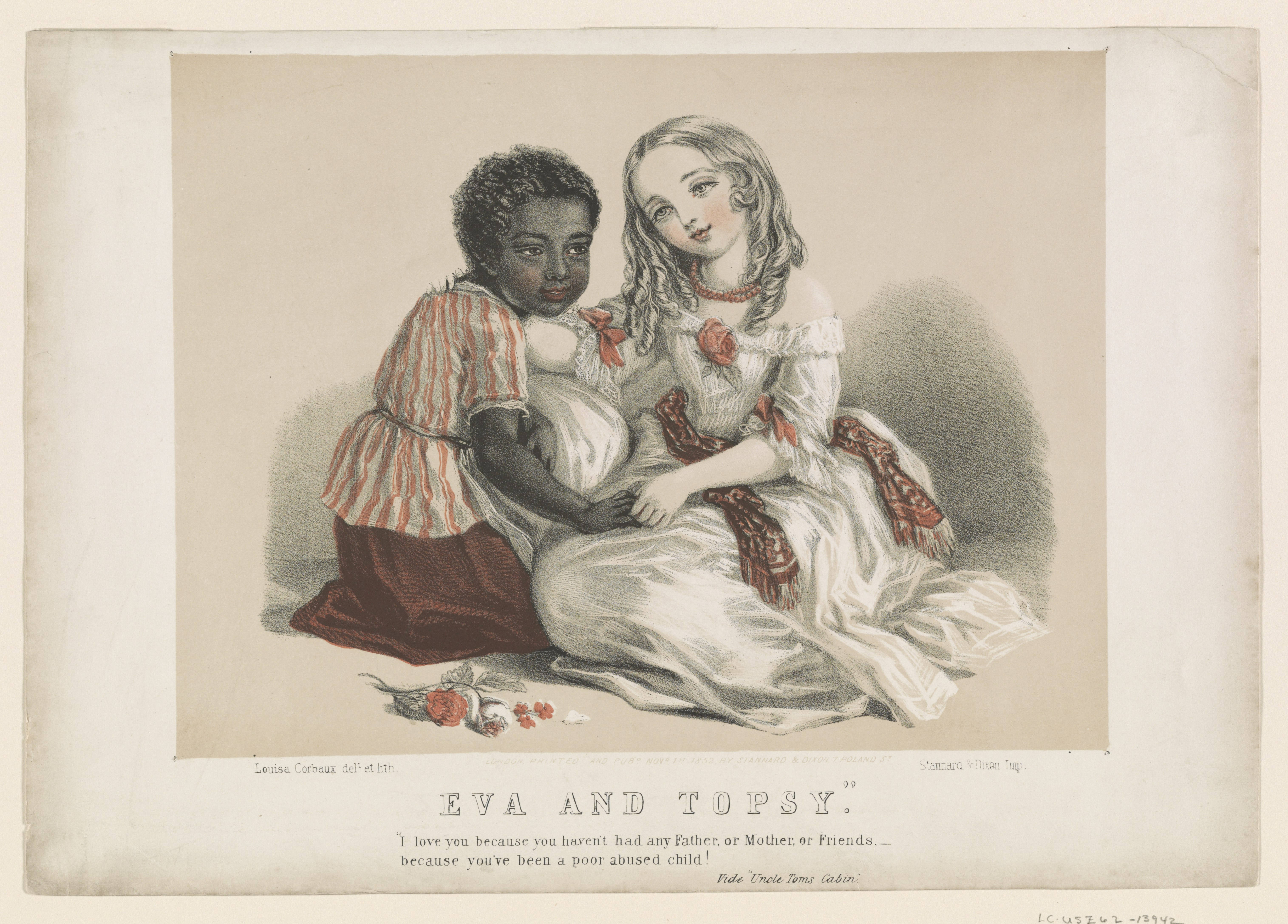 Title: Eva and Topsy / Louisa Corbaux delt. et lith. Abstract/medium: 1 print : lithograph, color.